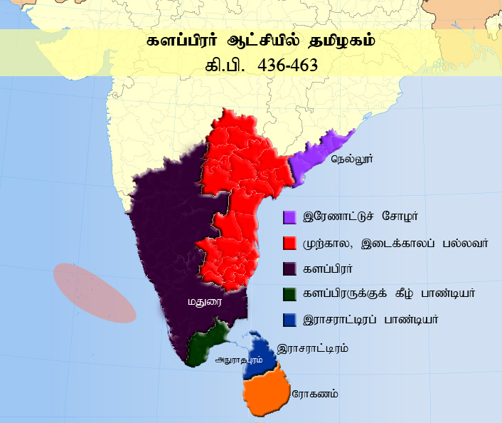 Pallava kingdom in kalapirar period.